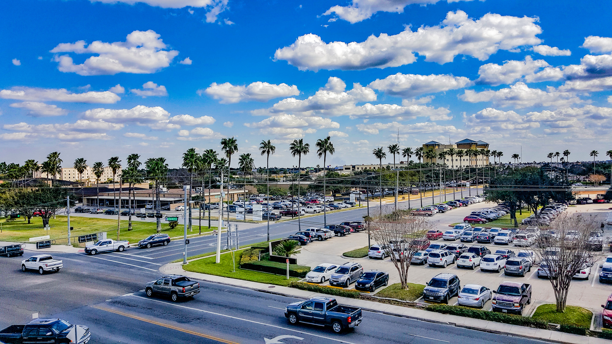 Cityscape of Mcallen, TX. This view is on 2nd and Ridge Road in McAllen